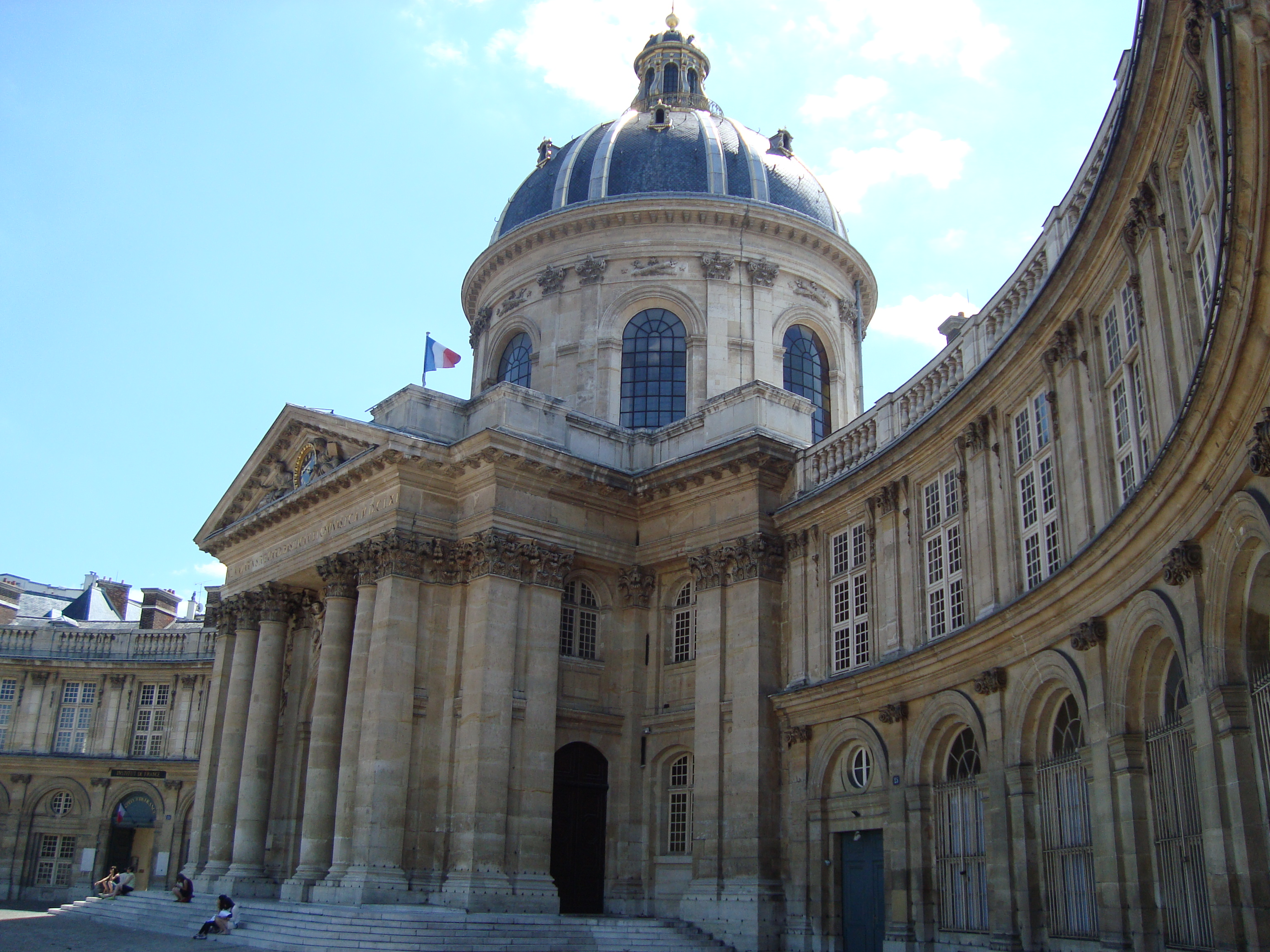 Institut de France in Paris